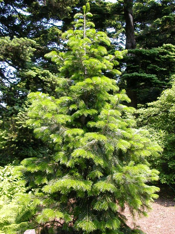 Abies pindrow (Pindrow Fir) at the New York Botanical Garden